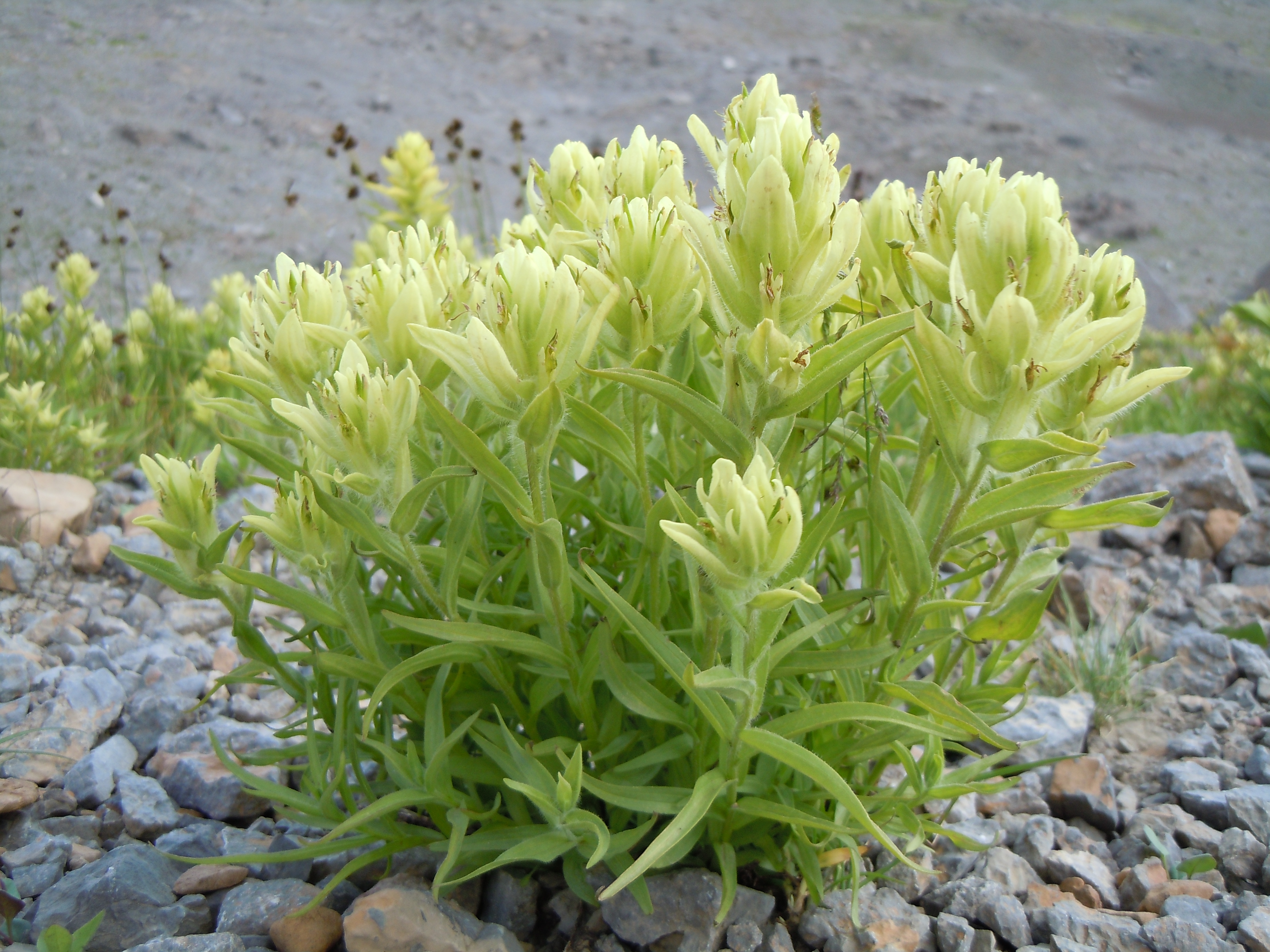 The very common yellow-flowered Castilleja in the Teton Range.